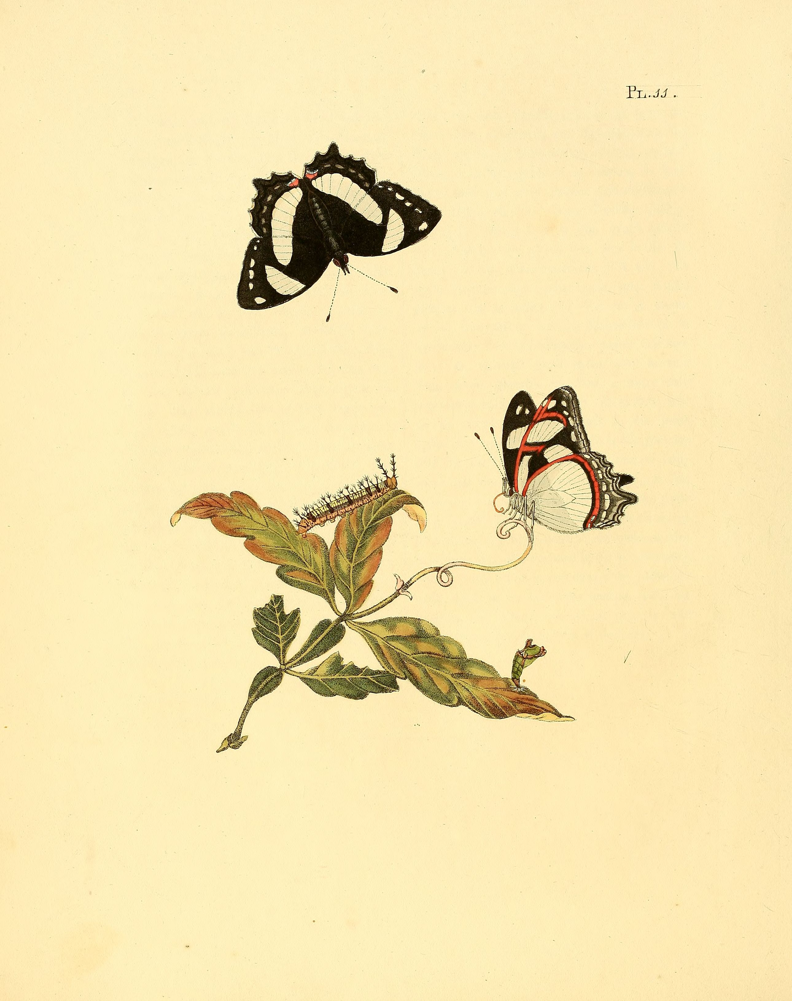 Illustration of: Pyrrhogyra neaerea (as syn. Papilio tipha)